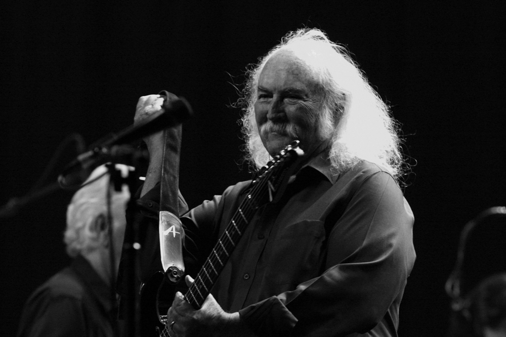 Crosby, Stills & Nash At Hordern Pavilion, Sydney, Australia